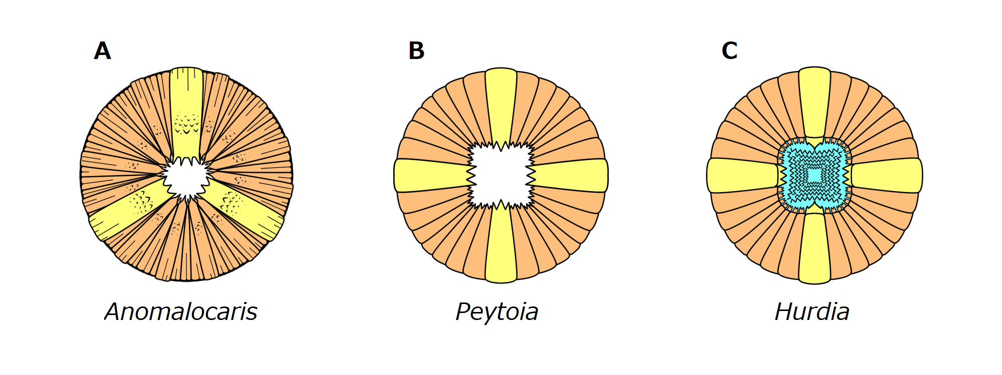 Examples of Radiodont oral cones from the genus Anomalocaris (A), Peytoia (formerly Laggania, B) and Hurdia (C). Yellow: large plates; orange: small plates; light blue: extra/inner toothed plates.